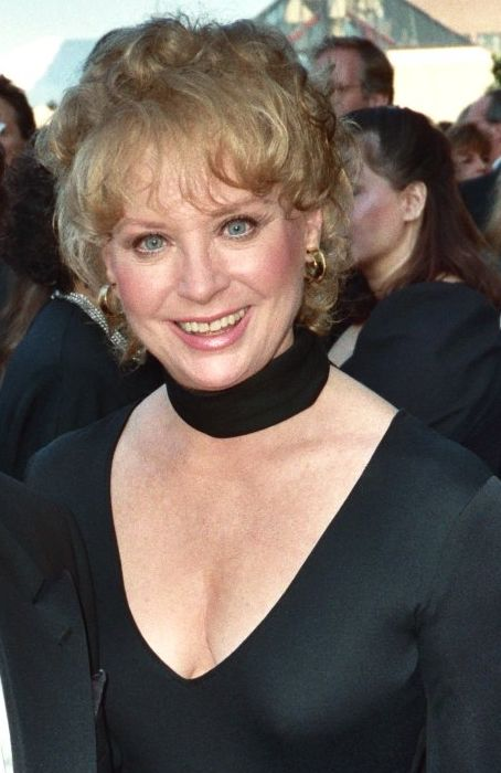 Photo taken at the 41st Emmy Awards 9/17/89